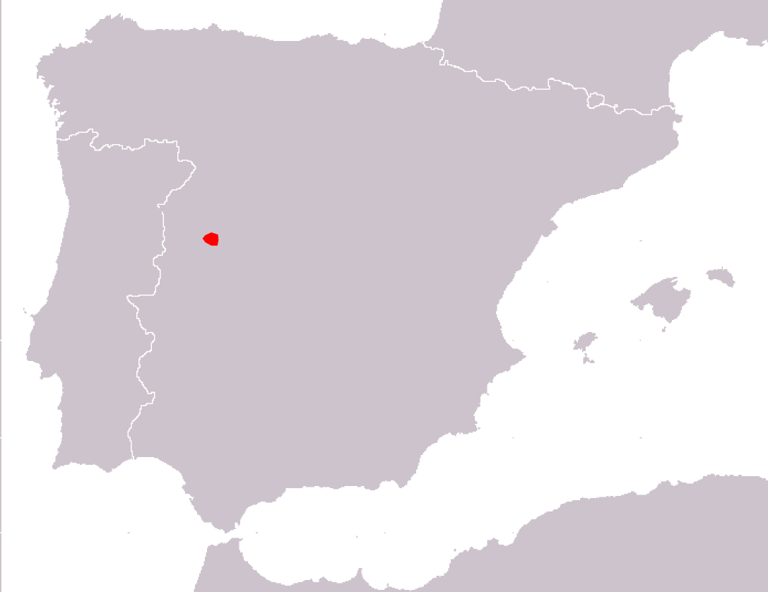 Iberolacerta martinezricai range map.